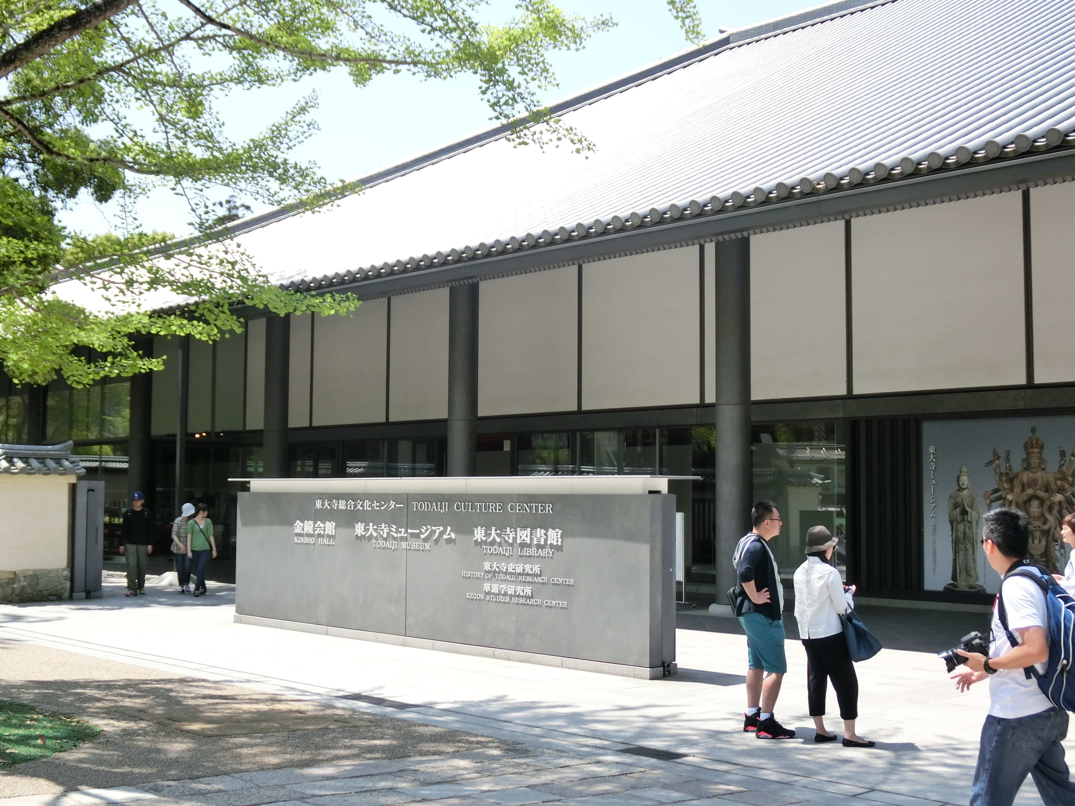 Todaiji Culture Center